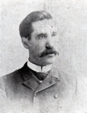 William T. Crawford, US Representative from North Carolina